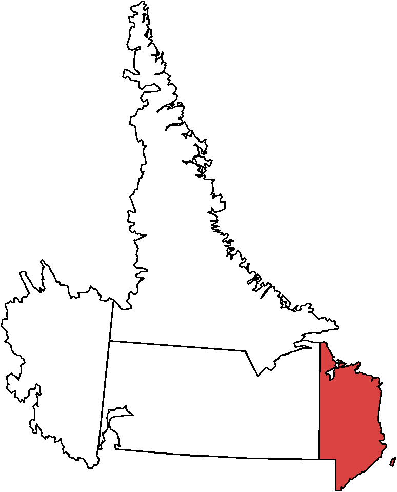 Map based on work by Earl Andrew, from maps used in 2007 elections Map based on work by Earl Andrew, from maps used in 2007 elections